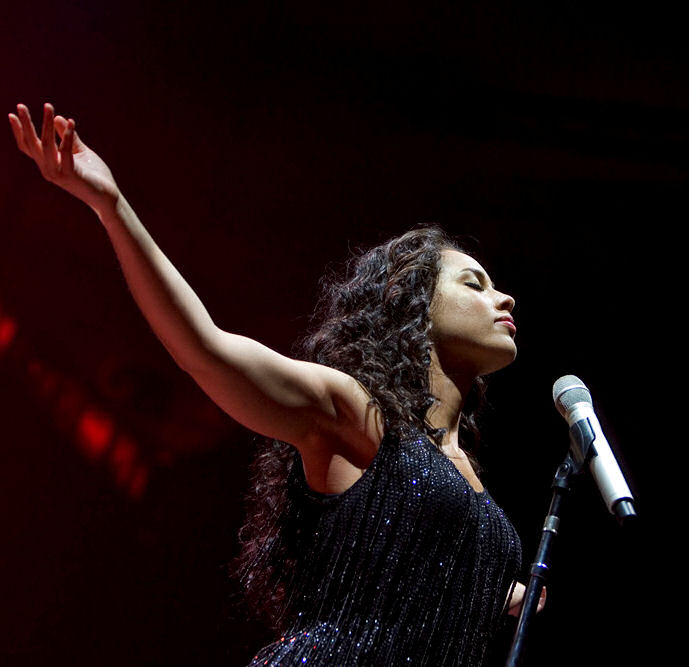 Alicia Keys performing